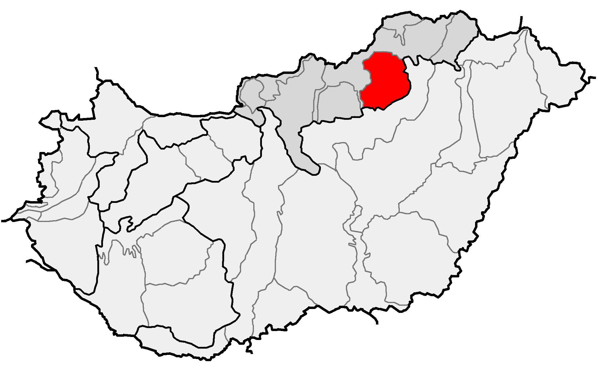 Location of geographical mesoregion of Bükk-vidék (red) and macroregion of Északi-középhegység (gray) within subdivisions of Hungary.